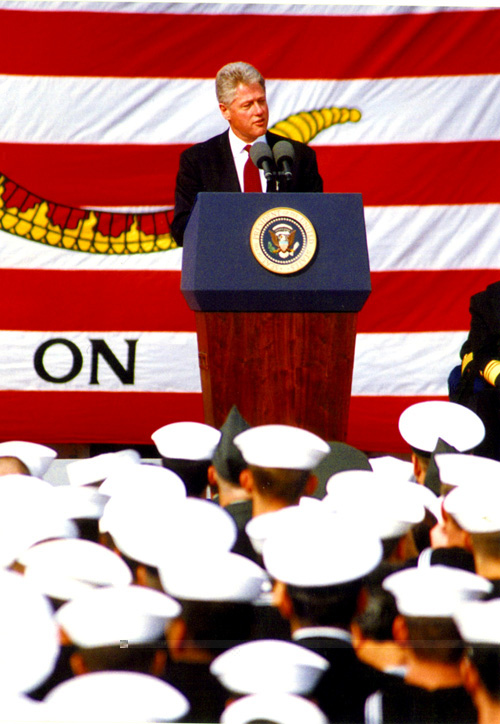 President Clinton Addressing Sailors